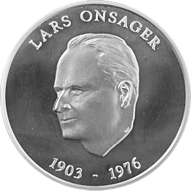 Adverse of the Onsager medal, awarded annually by The Norwegian University of Science and Technology, to an internationally recognized scientist of. The medal shows the Norwegian Nobel Prize Laureate Lars Onsager